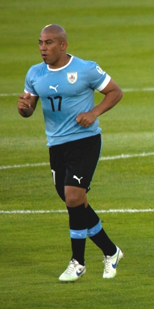 Uruguayan player, Egidio Arévalo Ríos, playing for the national team against Chile in the 3rd matchday of the 2014 FIFA World Cup southamerican qualifiers in the Estadio Centenario of Montevideo.